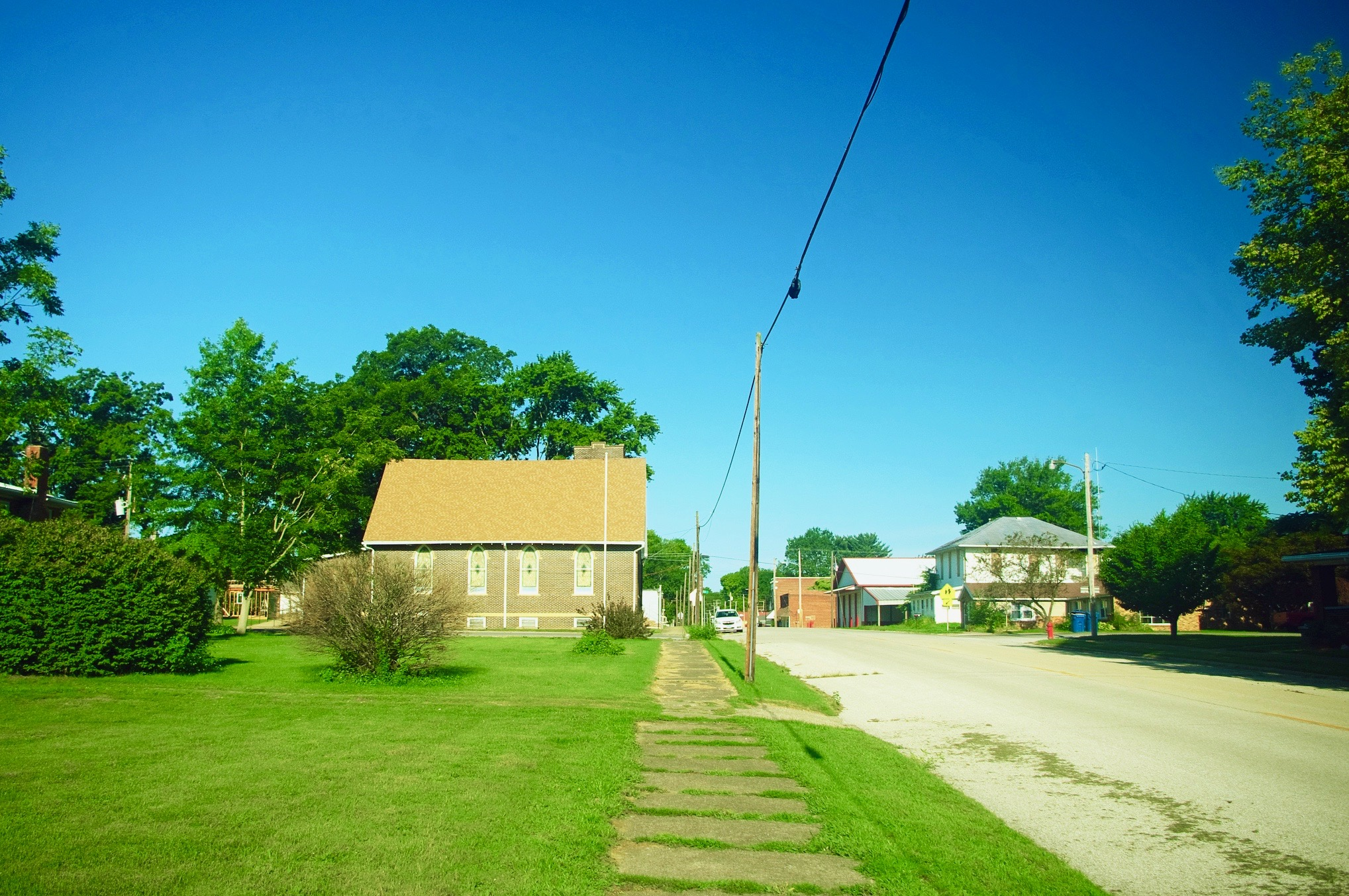 View along Main Street in St. Francisville, Illinois, United States.